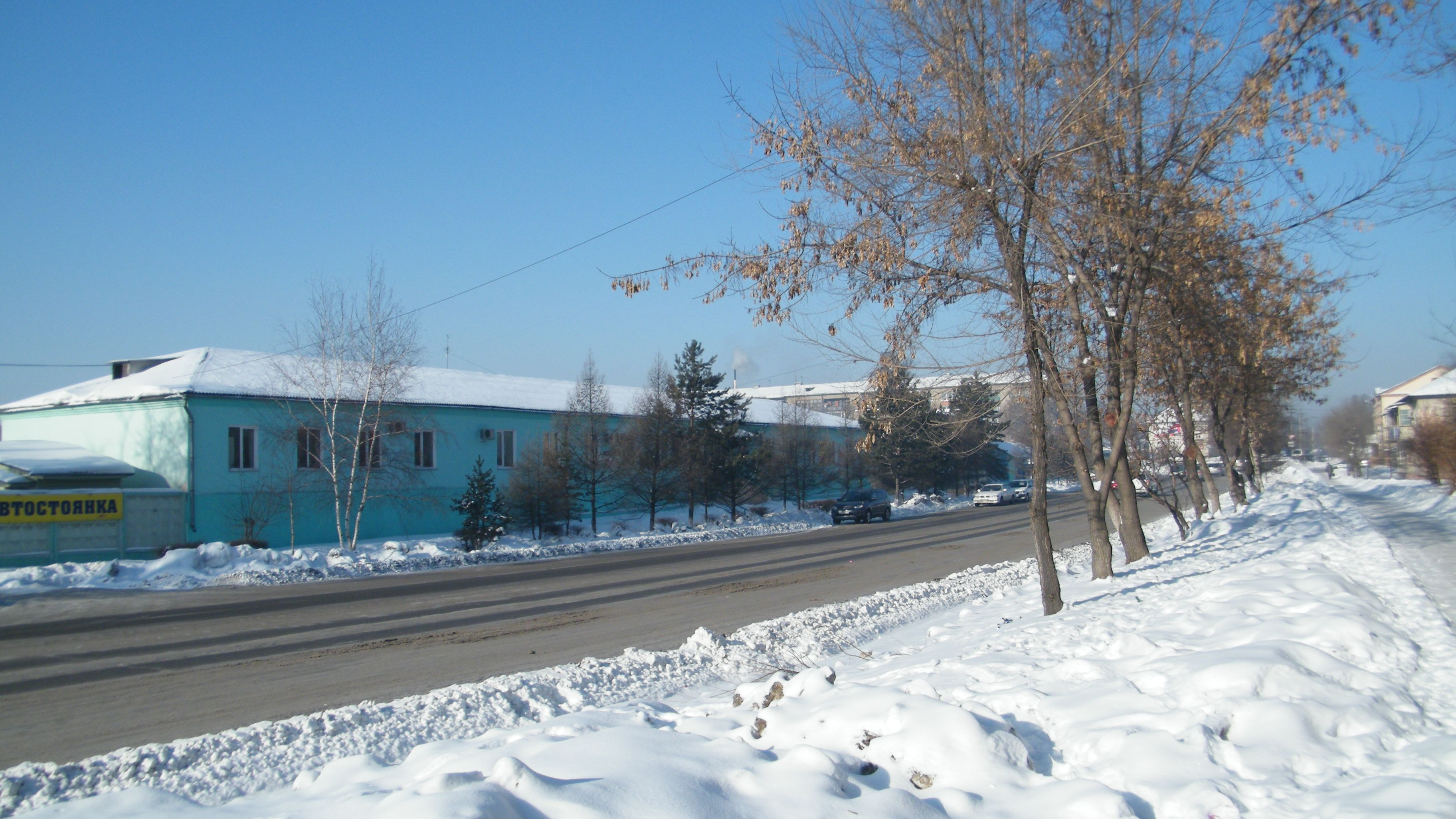 Ussuriysk